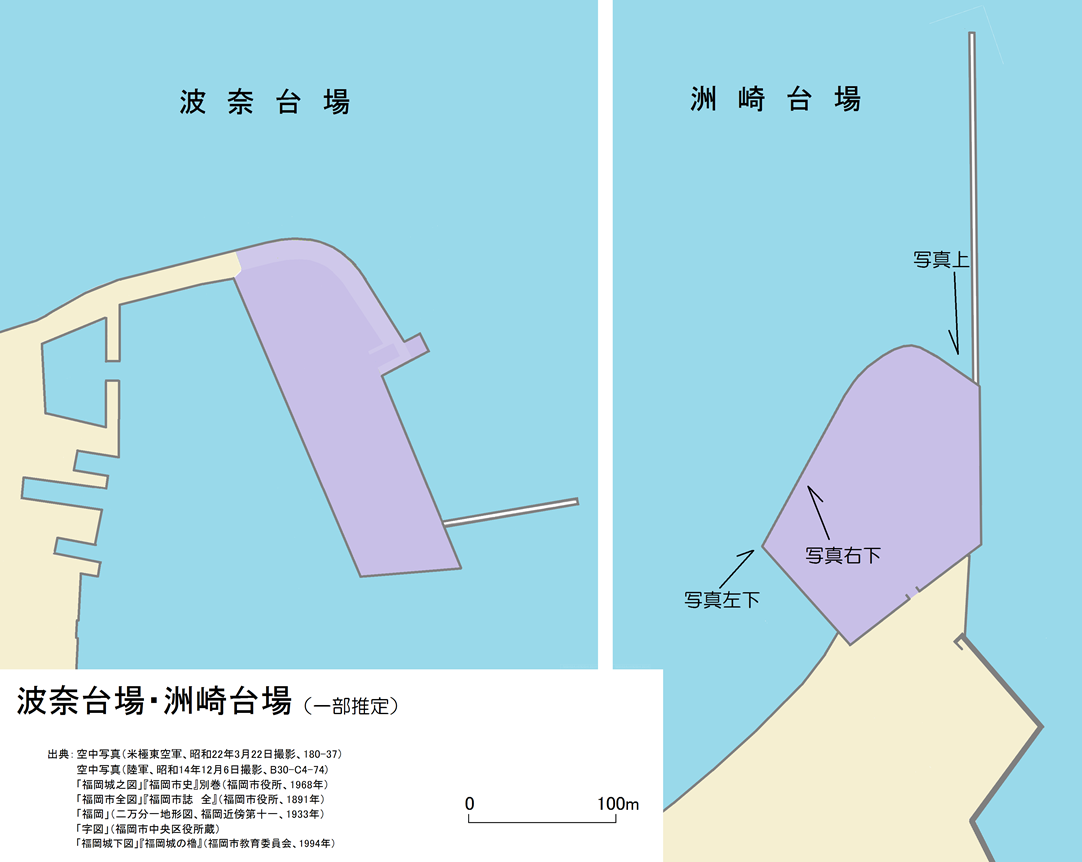 Hana and Suzaki Forts, Fukuoka, Chikuzen, Japan, in 1860s.